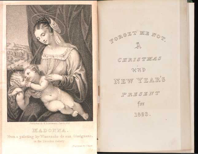 The Forget-Me-Not was an illustrated, British periodical published by Rudolph Ackermann. The annual was edited by Frederic Shoberl from its launch in 1822. A junior version appeared in 1828.